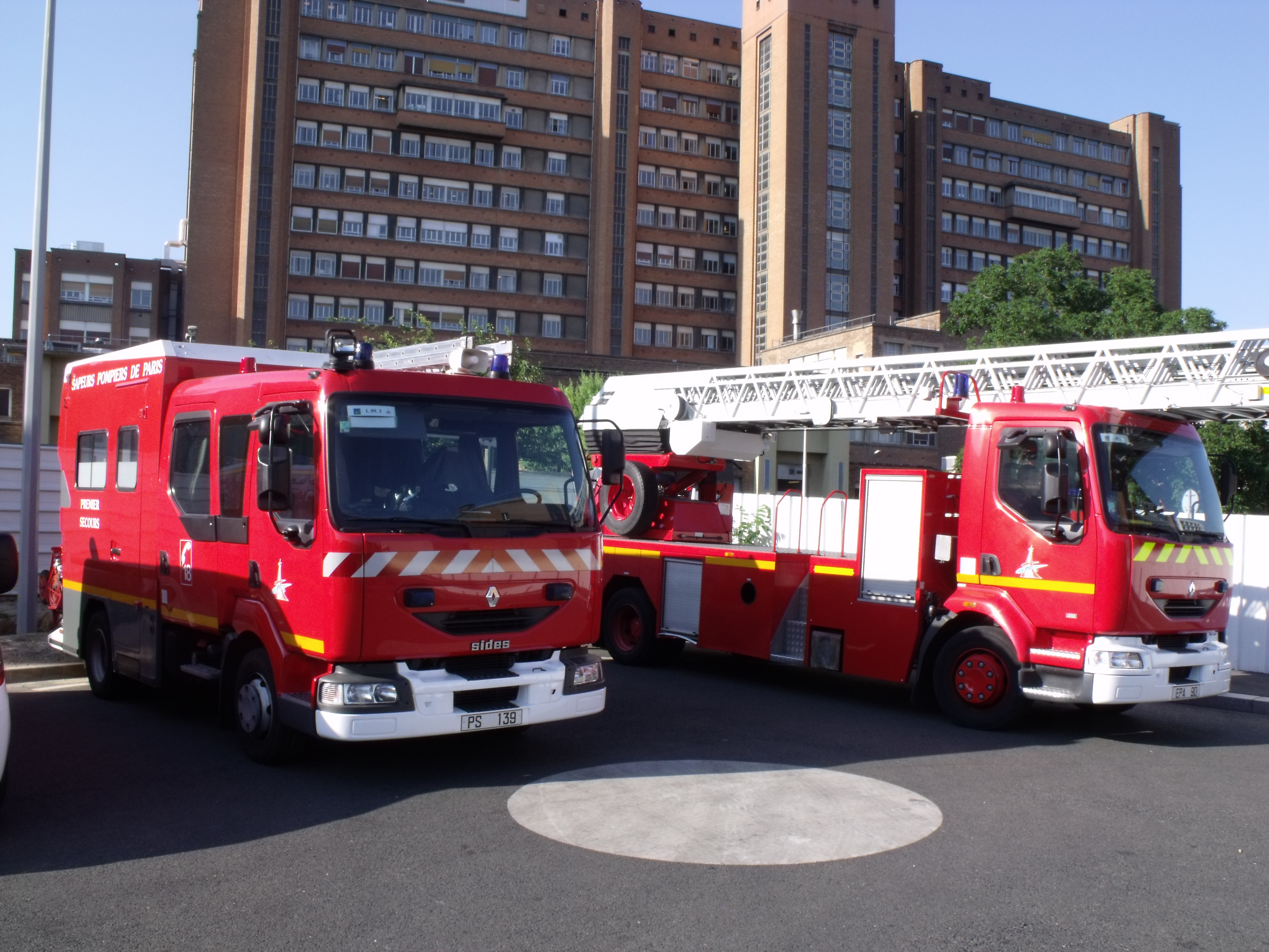 Two firemen trucks in Clichy, near Paris : Fire truck and turntable ladder.